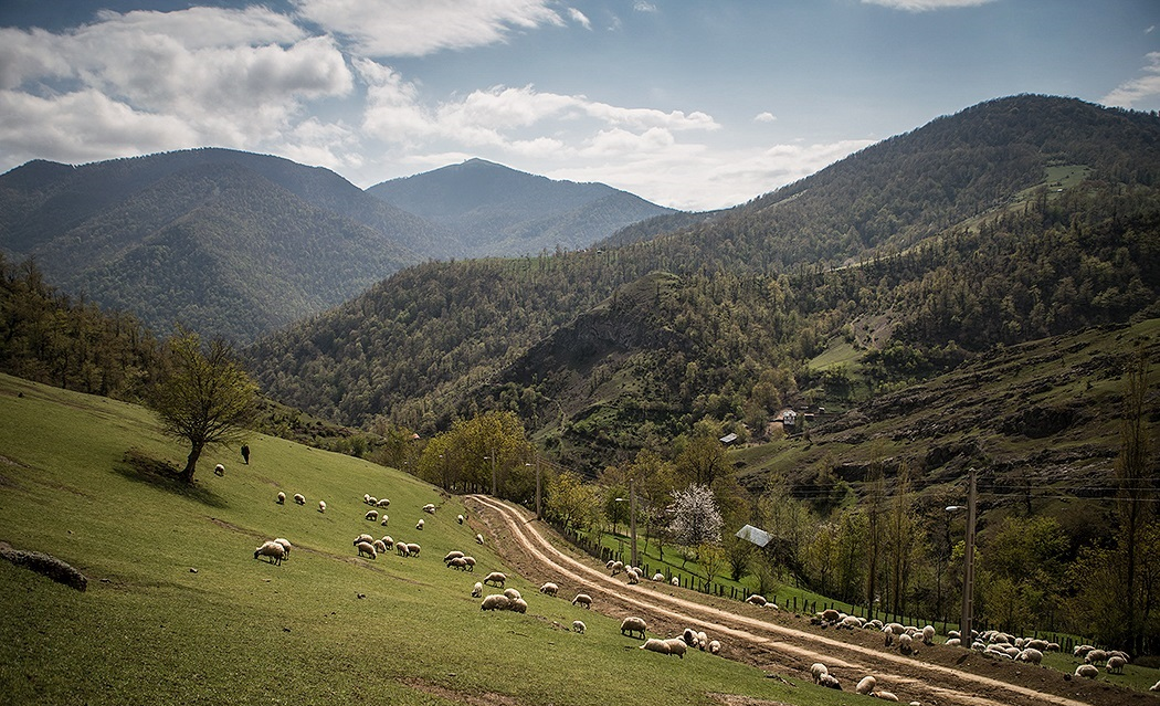 Rural life in Gilandeh, Kharajgil - 15 April 2018. main album